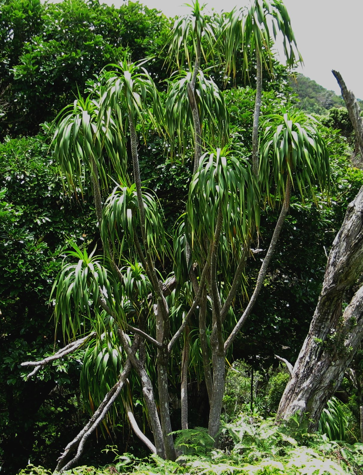 [syn. Dracaena halapepe] Hala pepe or Oʻahu hala pepe Asparagaceae Endemic to the Hawaiian Islands (Oʻahu only) Hawaiʻiloa Ridge Trail Early Hawaiians used the leaves in bathing and steam baths for chills (liʻa), headaches, fever, and thought to stop burning temperature or sensation. NPH00003